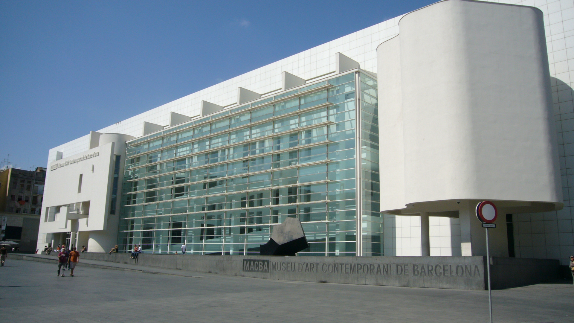 Barcelona: Museum of Contemporary Art by RichardMeier.